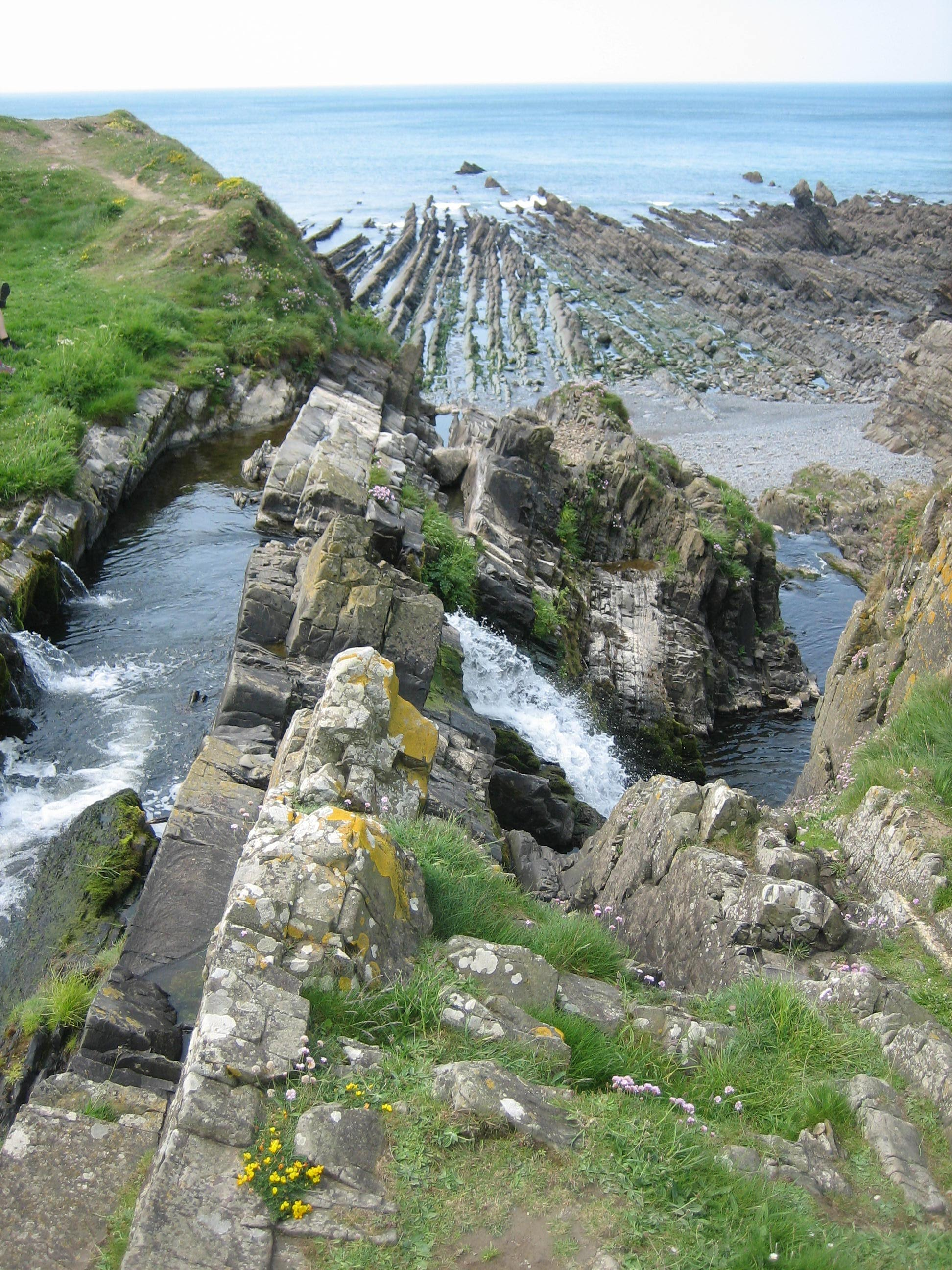 Waterfall and beach of Welcombe Mouth, Devon, UK